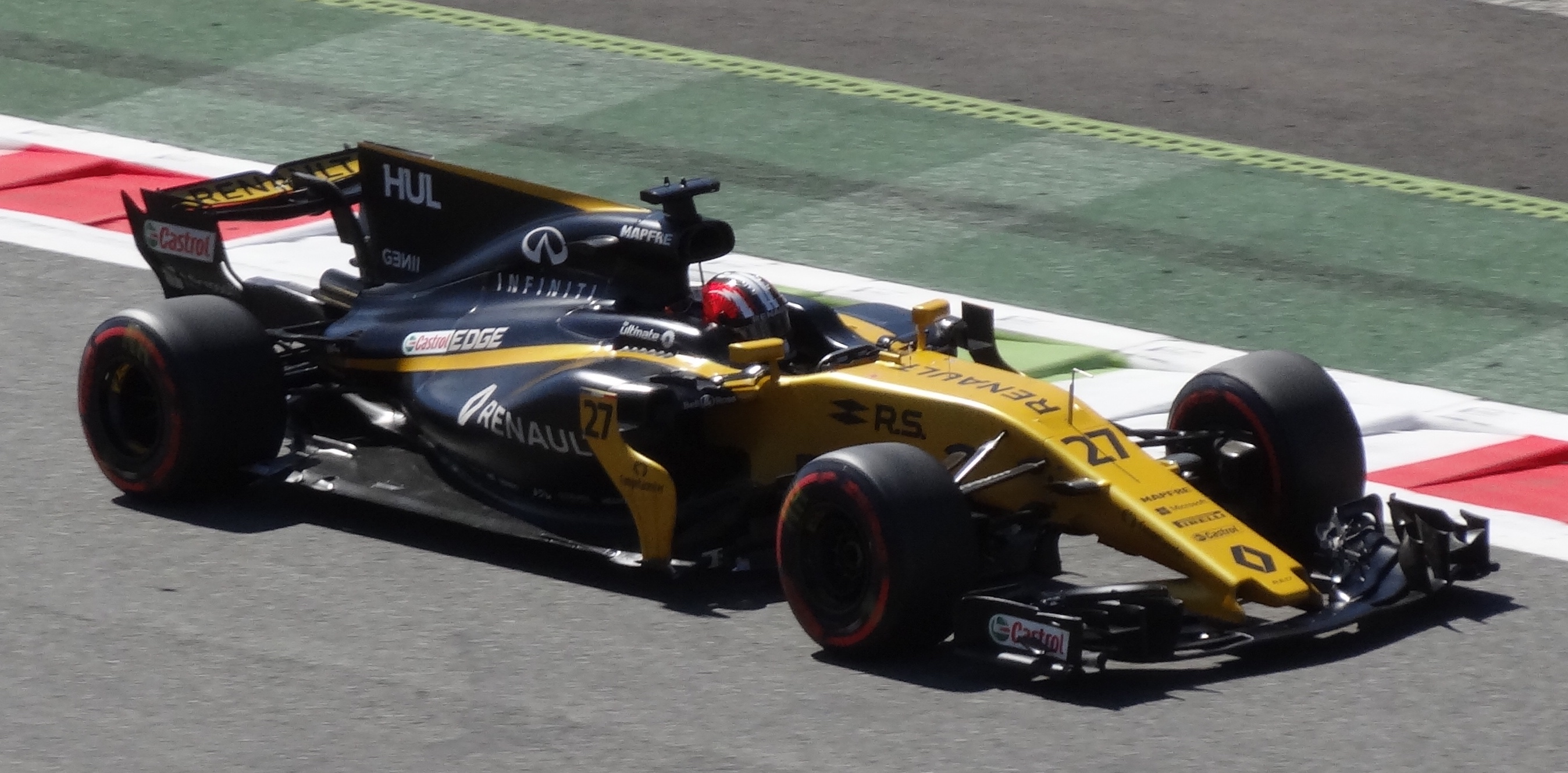 Hülkenberg Renault F1 Monza 2017